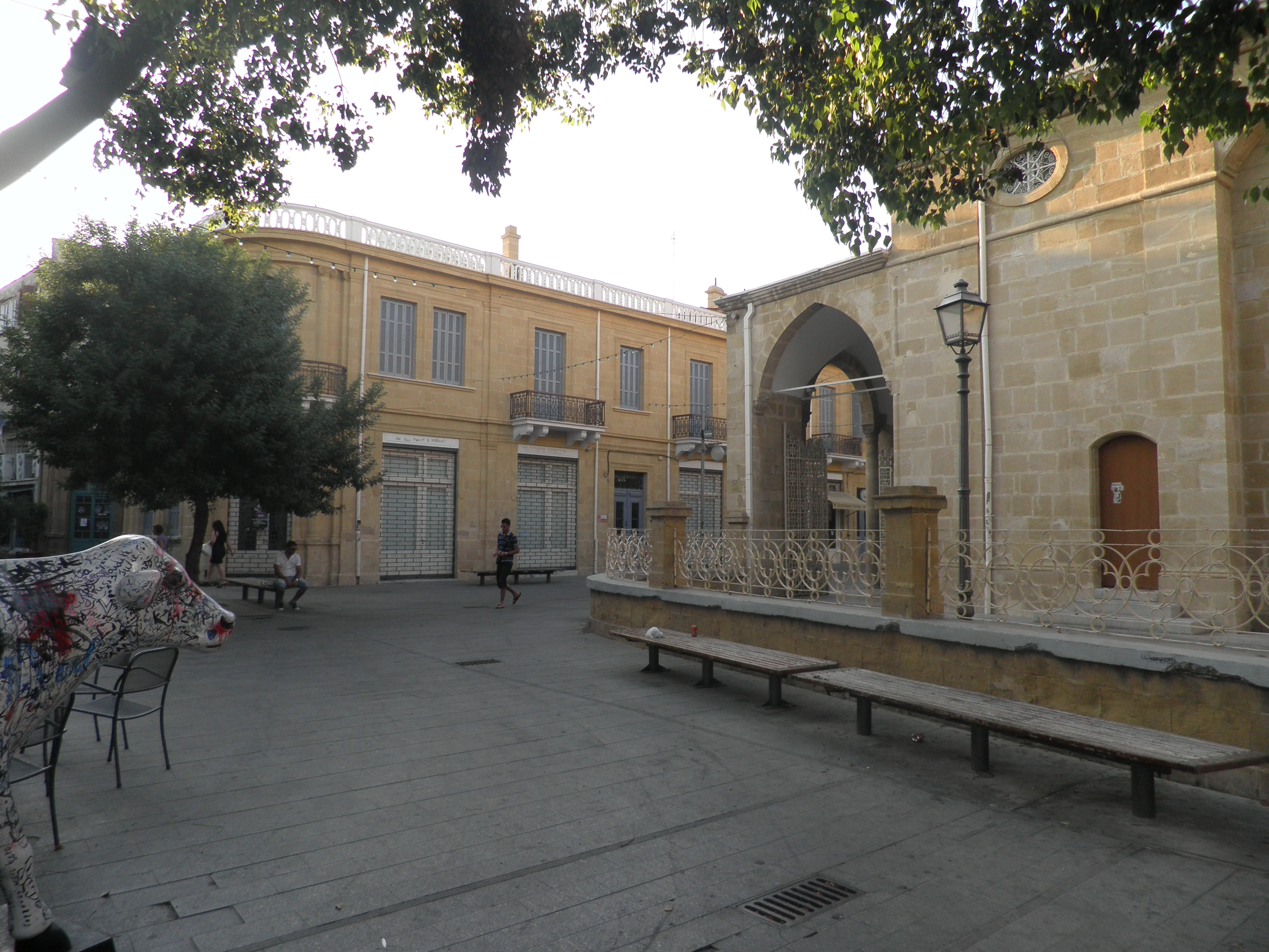 Faneromeni Church Nicosia